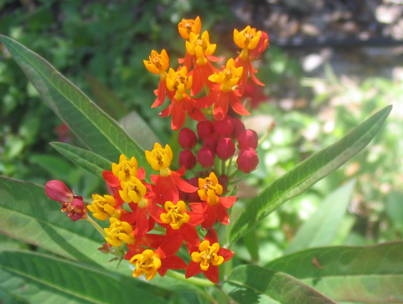 Crop of Image:Asclepias curassavica.jpg. Asclepias curassavica, from the Milkweed family. Common names: scarlet milkweed, bloodflower, silkweed, Indian root. Taken in my backyard in Sarasota, Florida, USA.